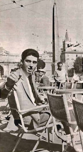 Italian actor and stage director Alessandro Ninchi